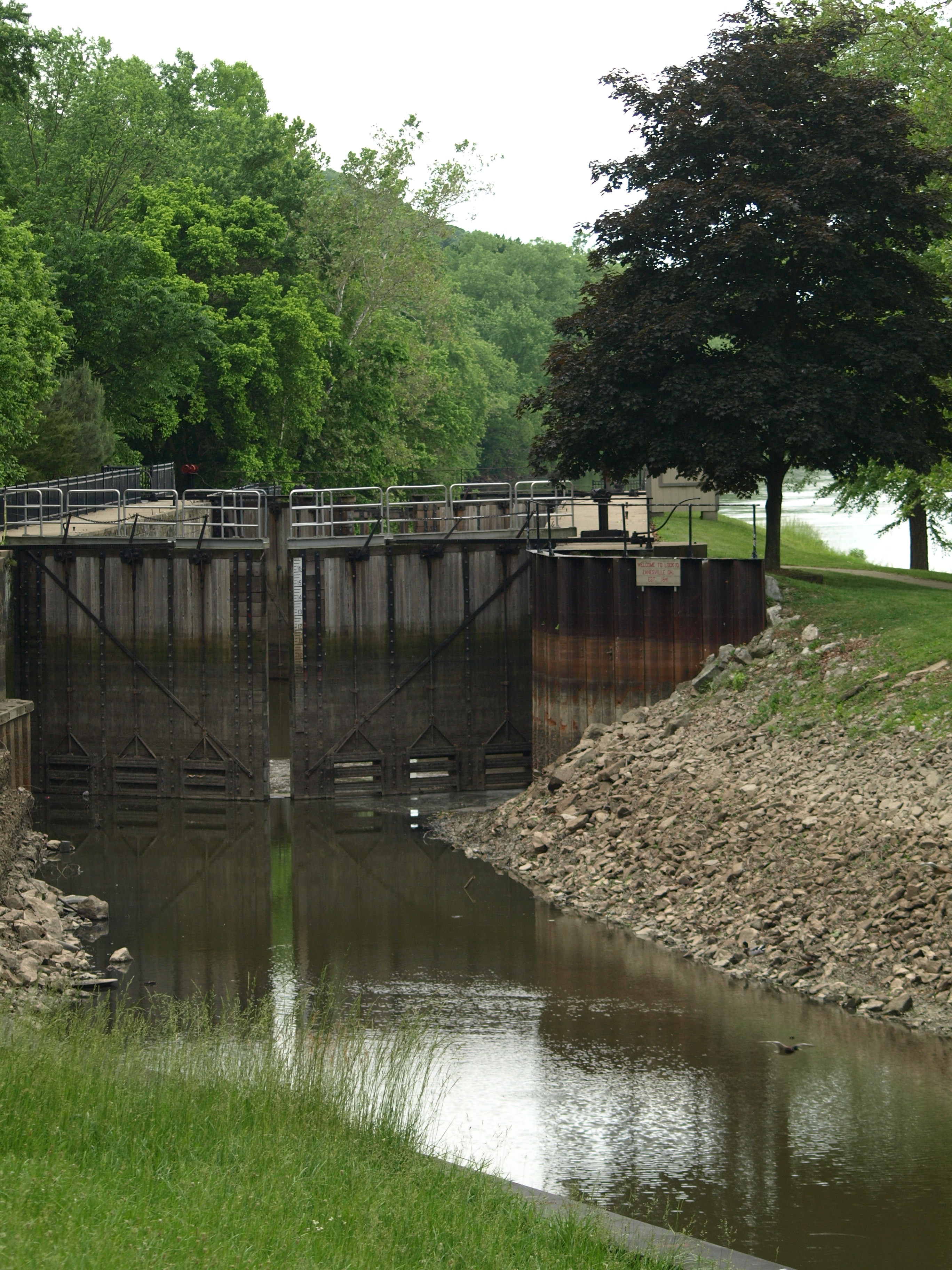 Canal on Muskingum River Lock #10 in Zanesville, Ohio, United States.